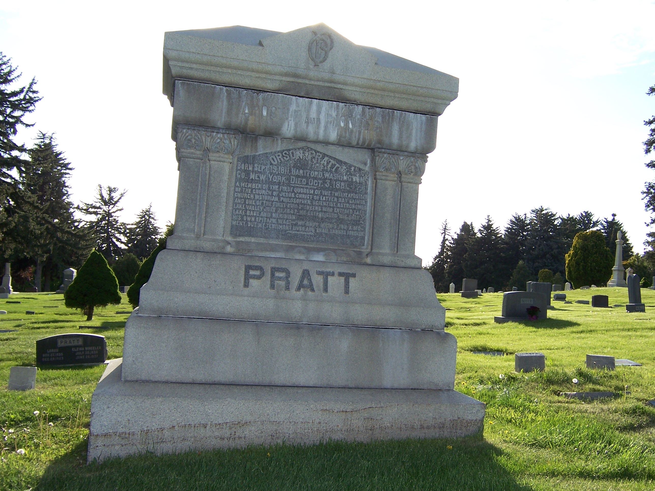 Front of grave marker of Orson Pratt, Sr., a leader in The Church of Jesus Christ of Latter-day Saints and an original member of the Quorum of Twelve Apostles in the Latter Day Saint movement.